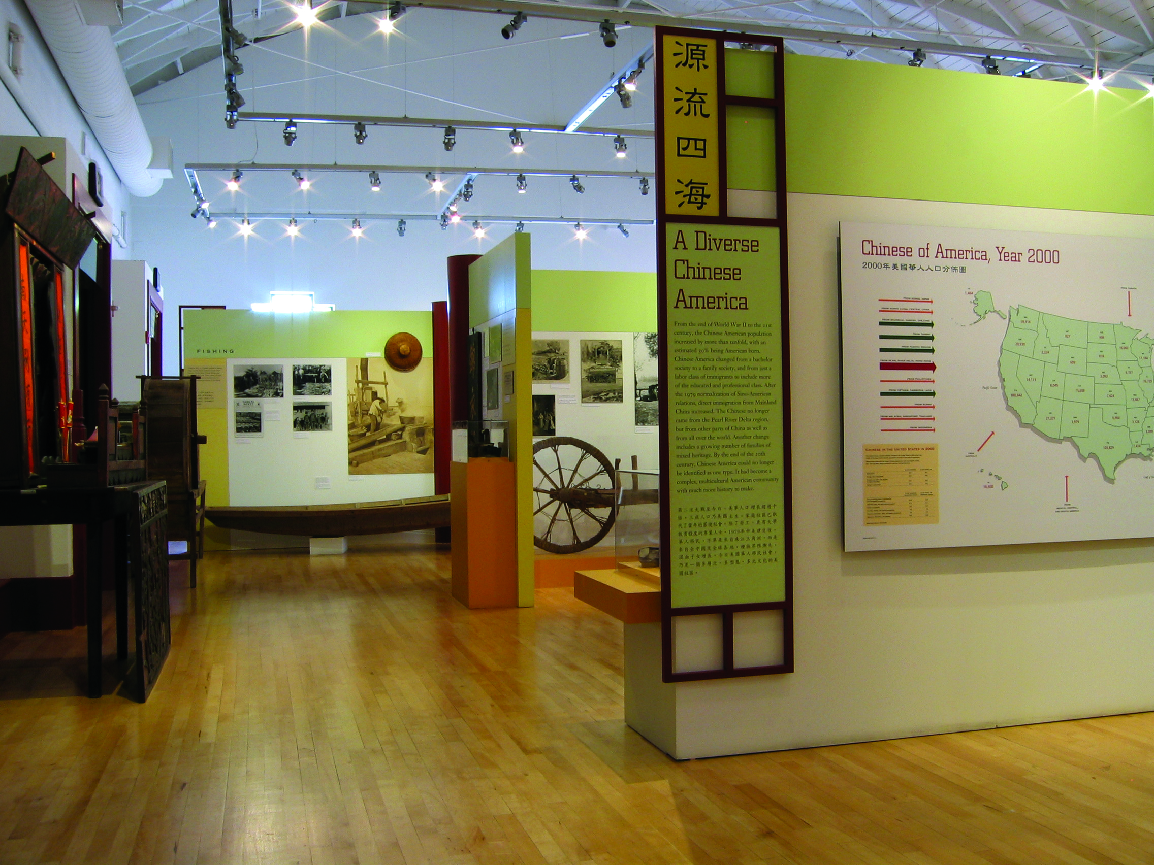 An exhibit in the Chinese Historical Society of America, San Francisco, 965 Clay St.